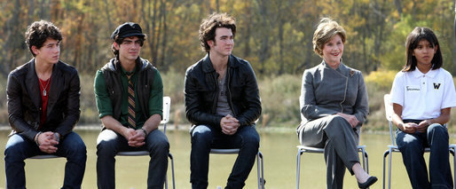 Mrs. Laura Bush is joined onstage by Boys and Girls Club student Jovanna Moreno age 11, right, and singer/songwriters the Jonas Brothers, Nick Jonas age 16, left, Joe Jonas age 19, 2nd from left, and Kevin Jonas age 20, 3rd left during a First Bloom event at the Trinity River Audubon Center, Sunday, November 2, 2008, in Dallas, TX.